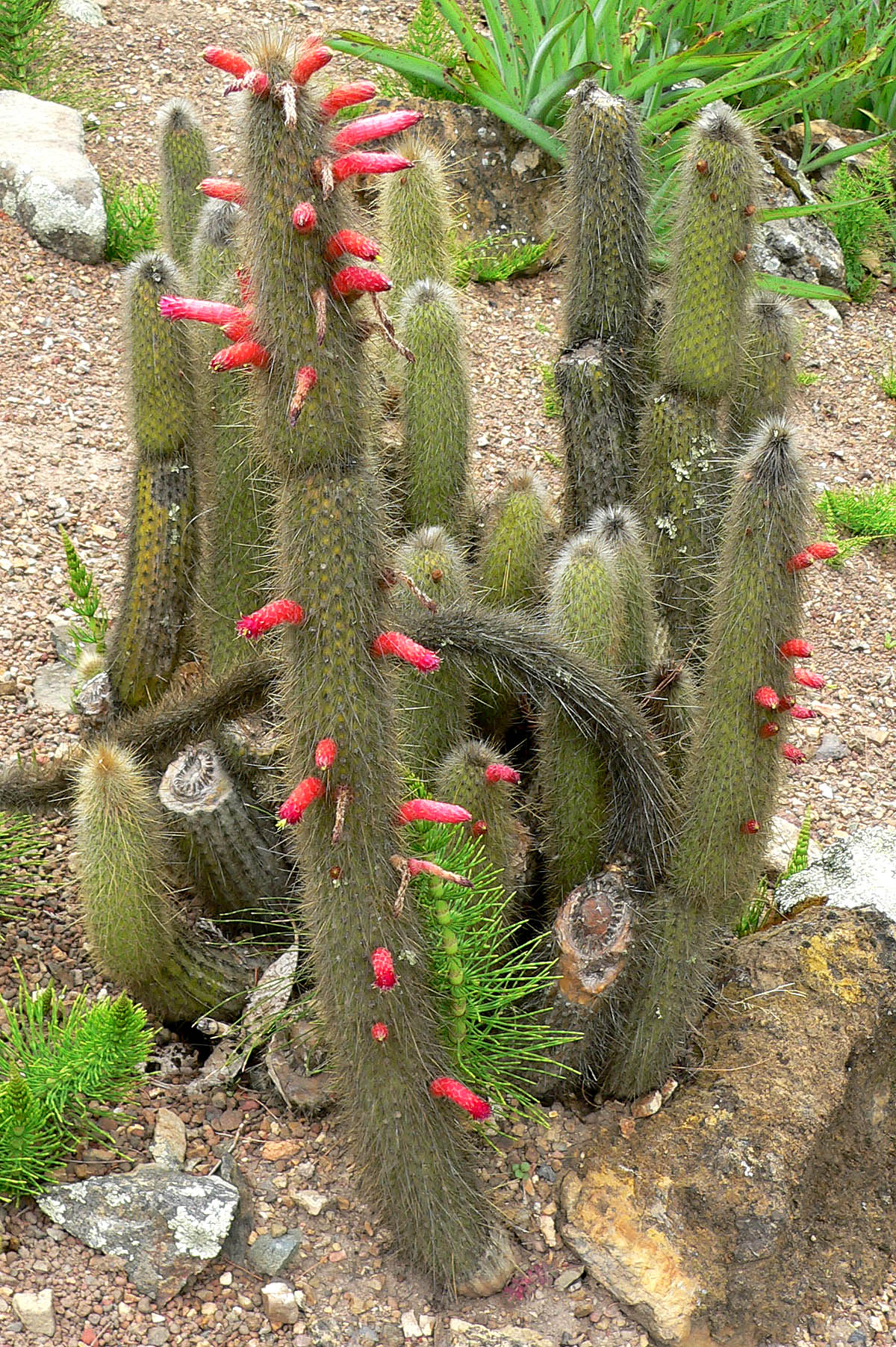 Photo of Cleistocactus hyalacanthus at the University of California Botanical Garden